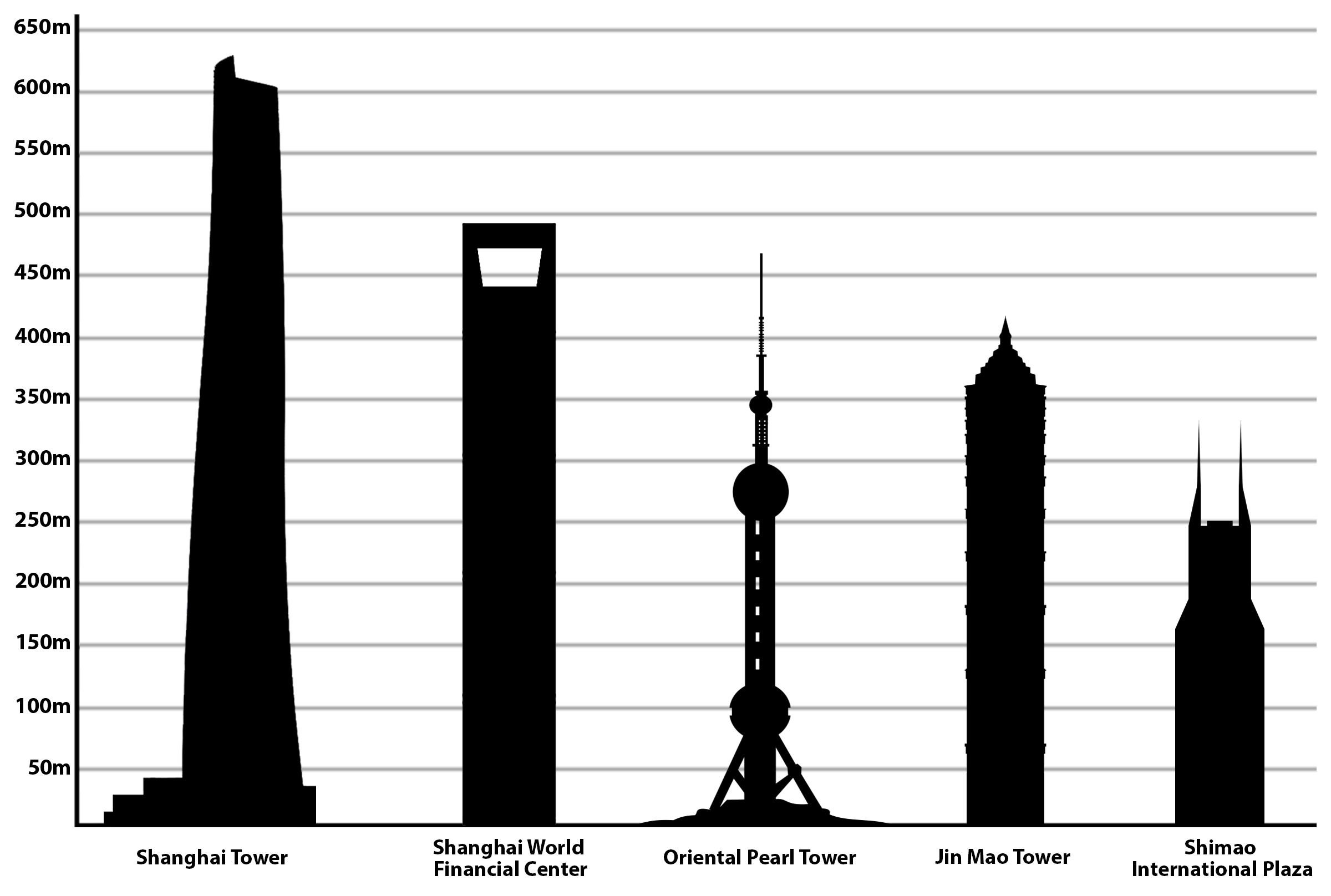 Tallest structures in Shanghai; Used data from .